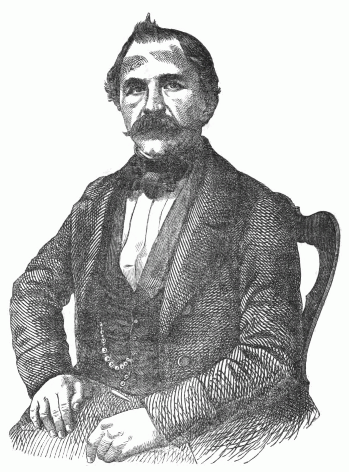 Bogoslav Šulek (1816 - 1895), Croatian philologist, historian and lexicographer of slovakian origin